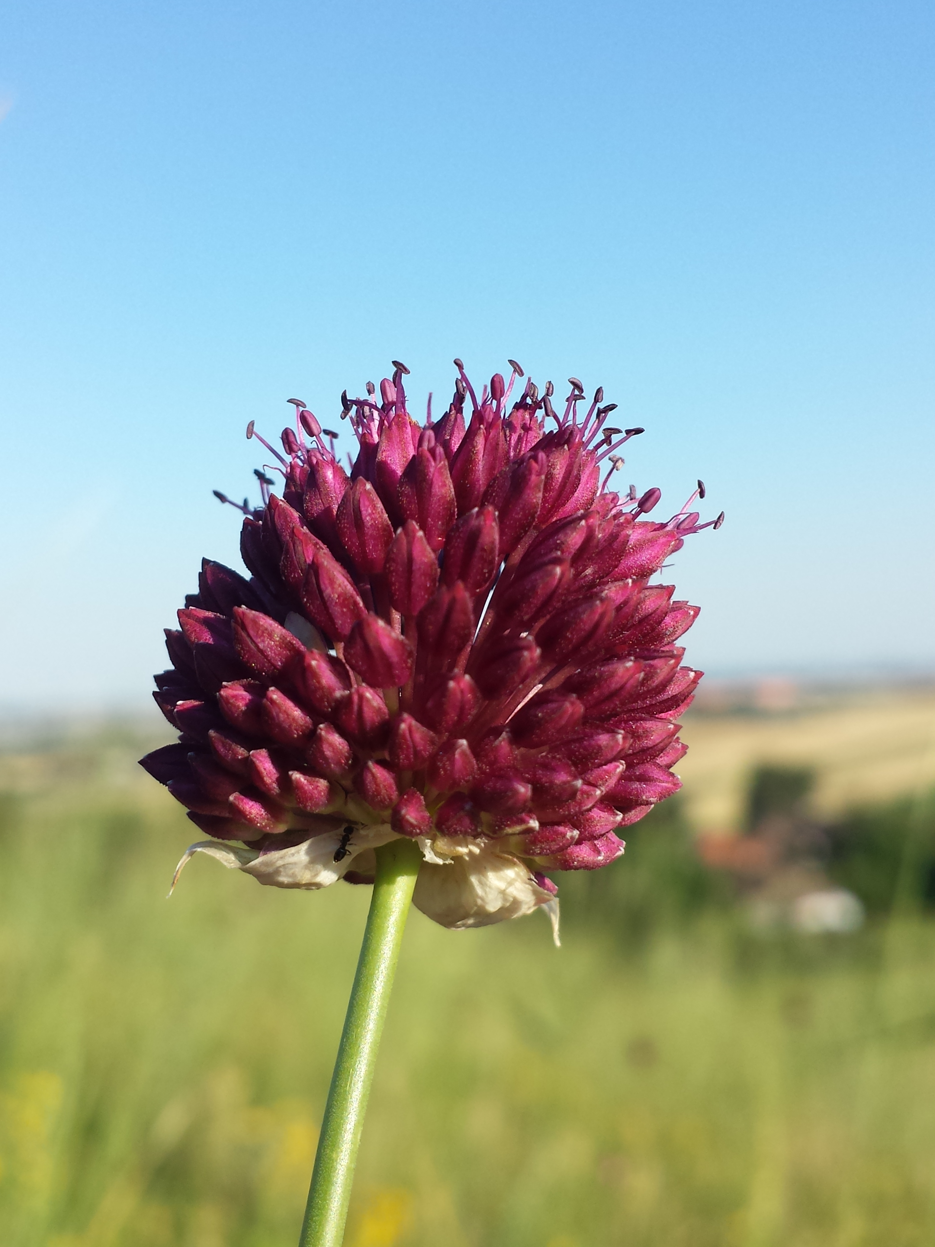 Inflorescence Taxonym: Allium sphaerocephalon ss Fischer et al. EfÖLS 2008 ISBN 978-3-85474-187-9 Location: Loess hill to the west of Großebersdorf, district Mistelbach, Lower Austria - ca. 220 m a.s.l. Habitat: semi-dry grassland